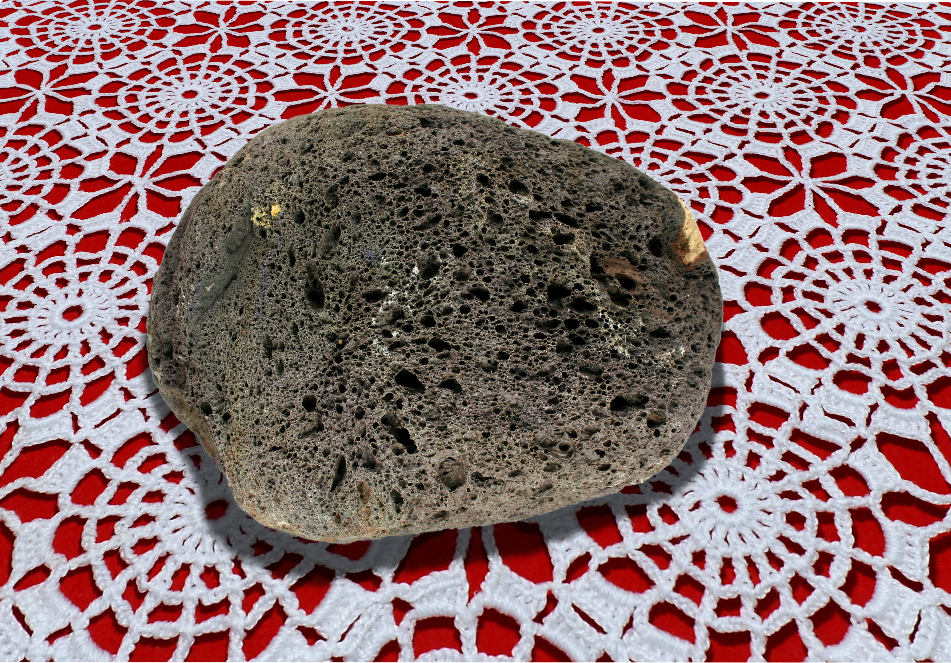 "My 1975 Pet Rock (adopted -- origins and family information sealed by law)." (pet rocks were not volcanic scoria, so this is apparently a humorous summary)